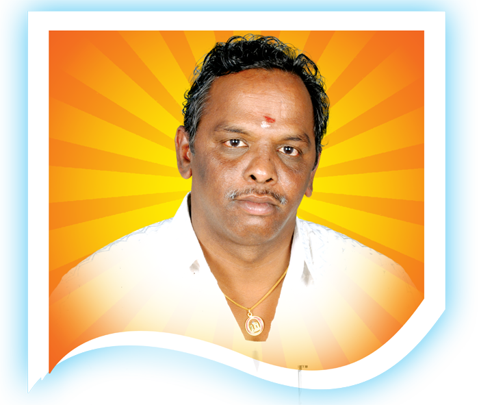 Sivamathi M. Mathiyalagan, Founder of Sivamathiyin Jeevayoga Jothimayam and creator of Jeevayogam.